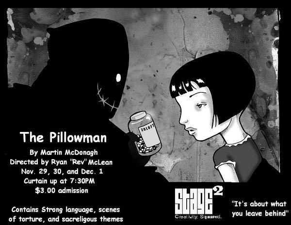 Poster from Stage II's production of "The Pillowman" pillowmanposter.jpg